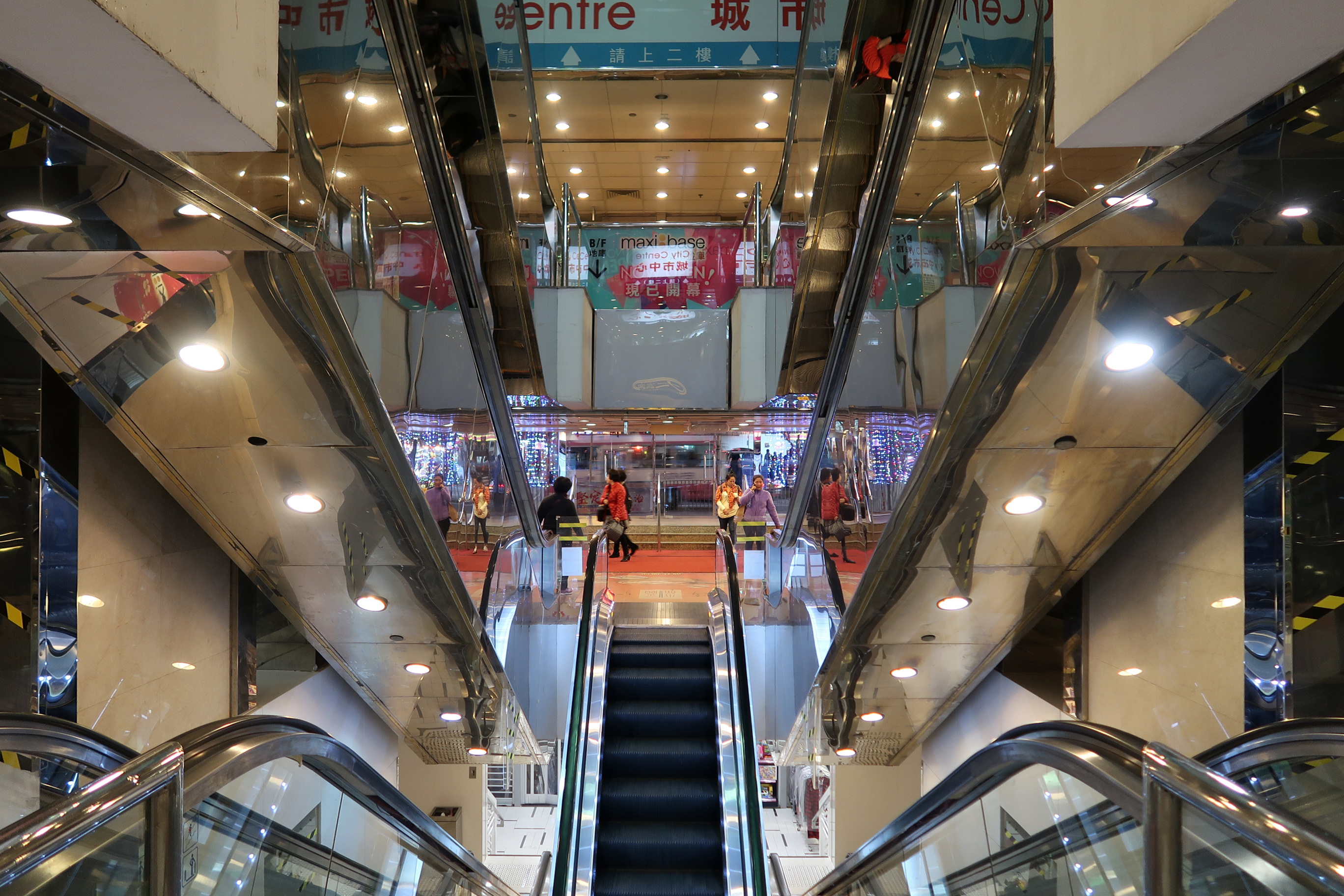 City Centre void